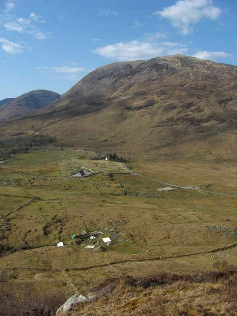 High Pasture Cave near to Kilbride Very interesting Bronze age settlement and natural cave complex Also nearby is a deserted crofting settlement View looks across to Beinn Dearg Bheag